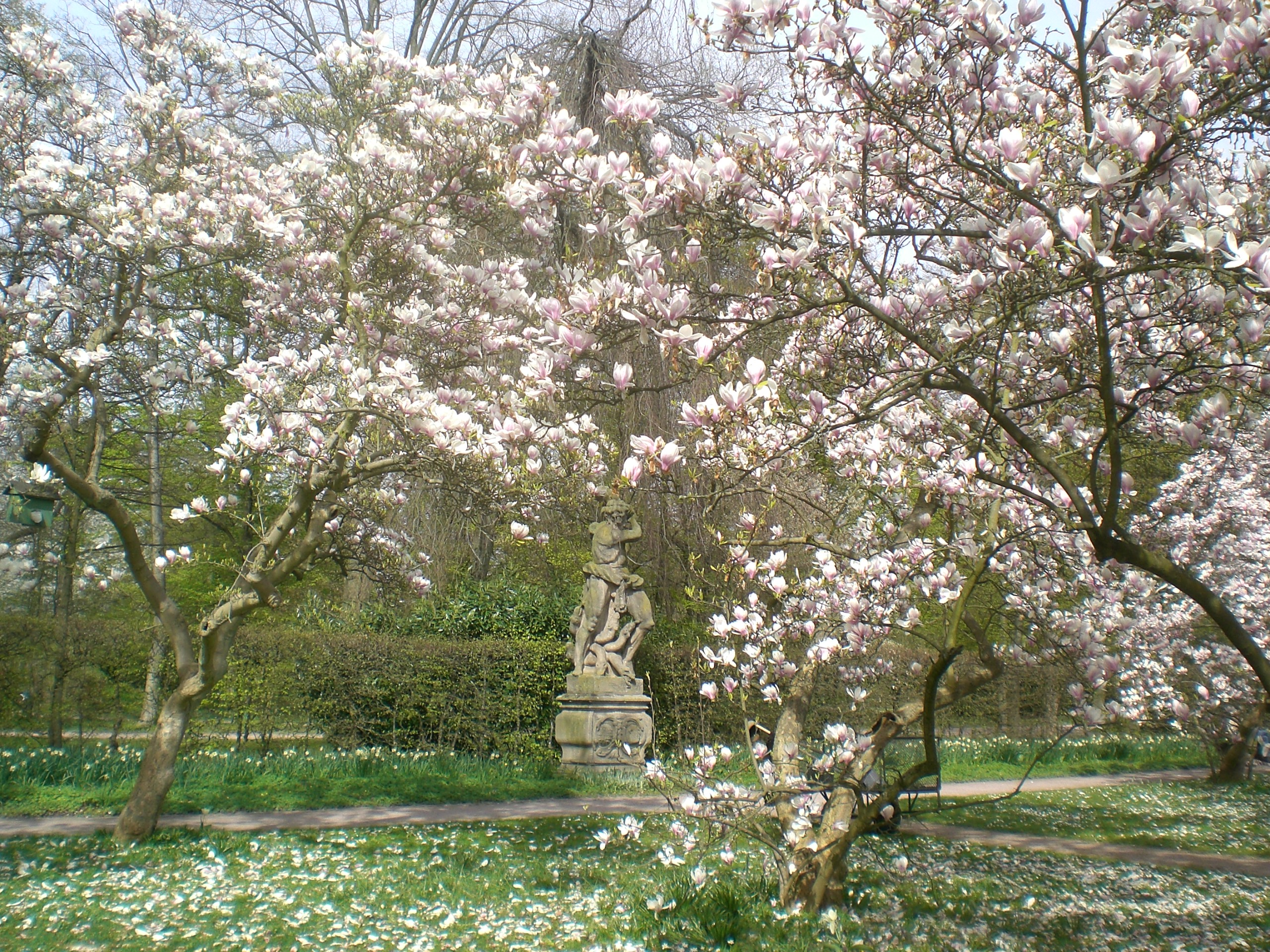 The Park Schöntal during spring - a historical park in Aschaffenburg (Germany).